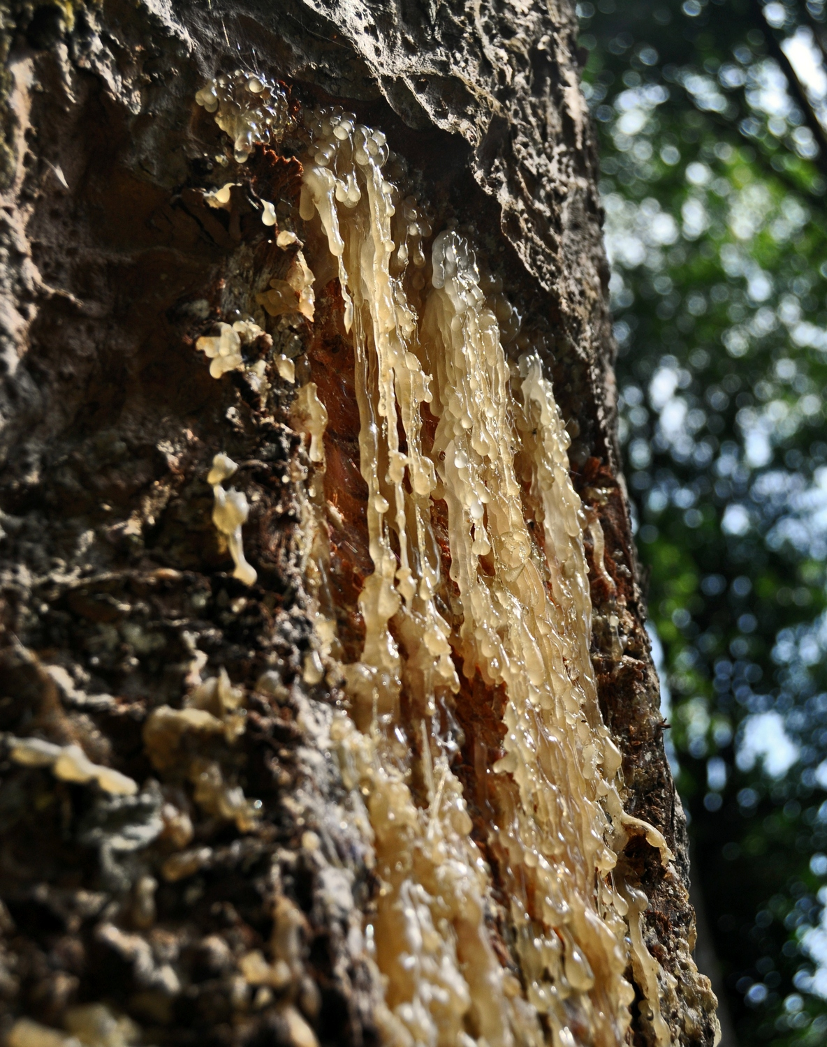 Copal resin of damar (Agathis dammara) at its tapping hole. Sukabumi, West Java.